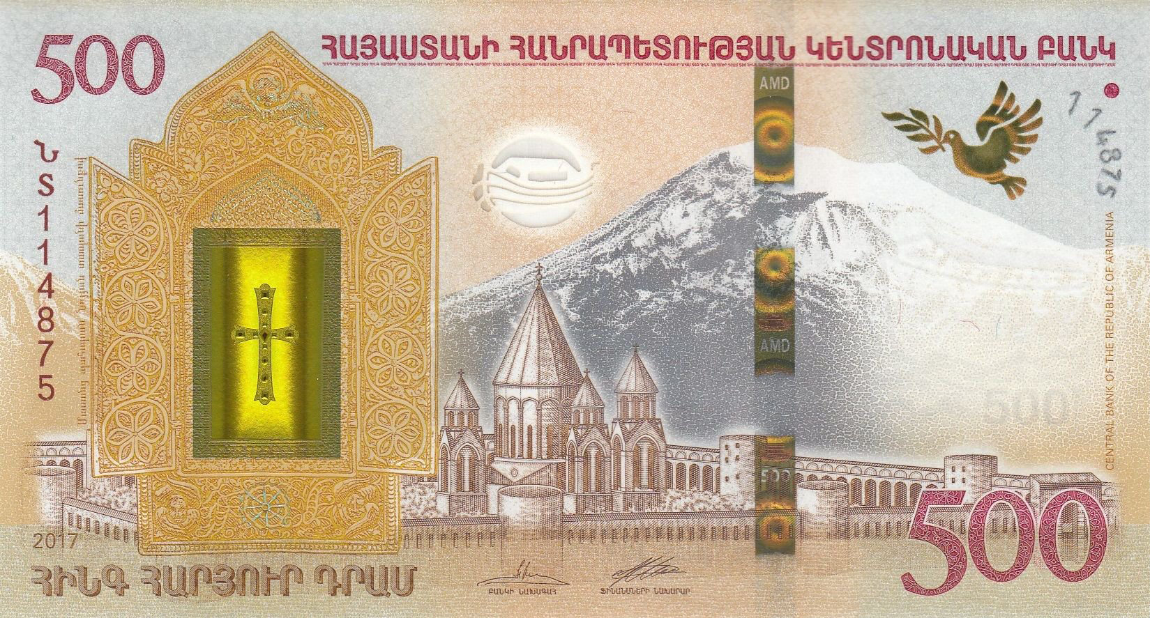 500 dram 2017